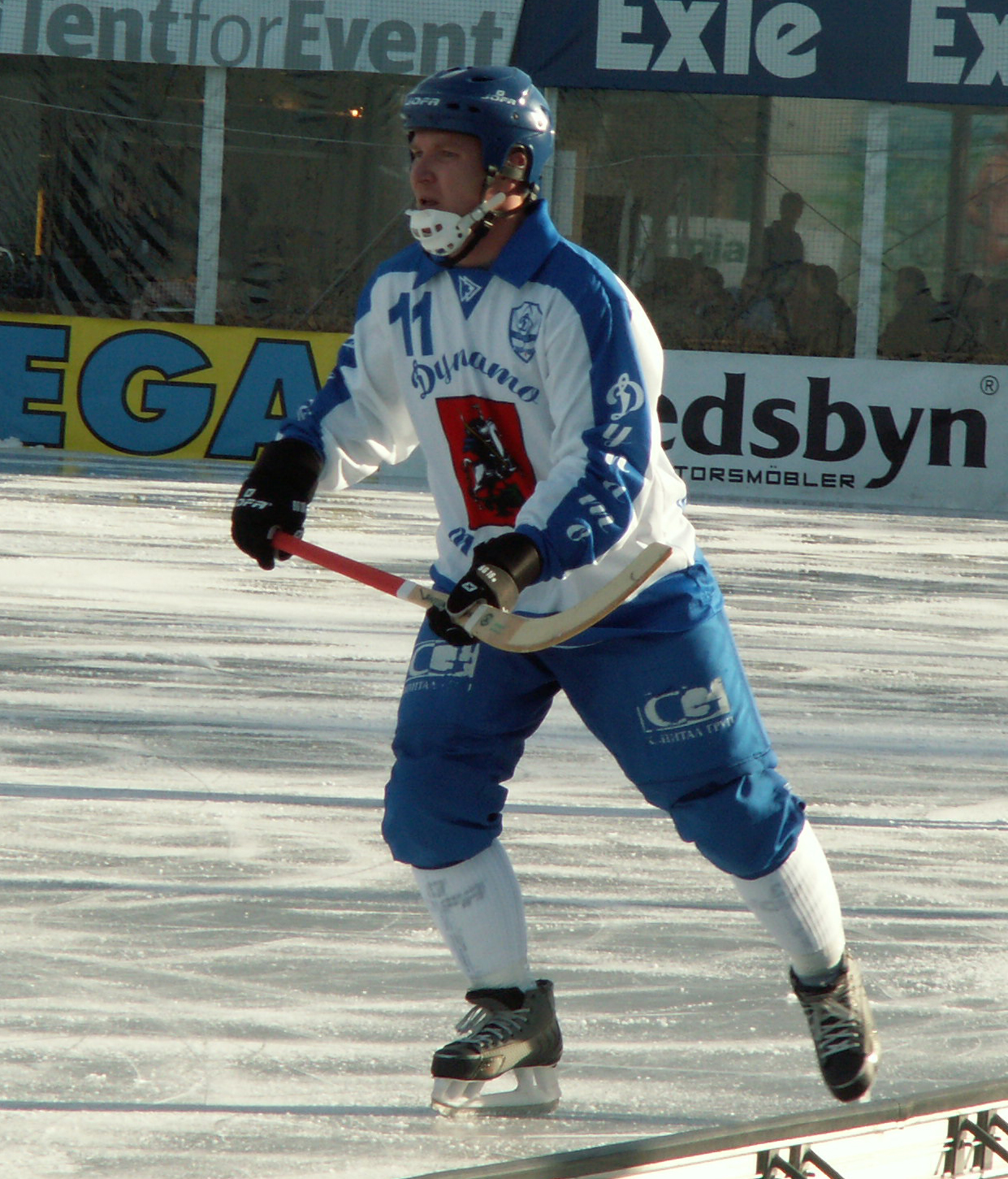 Yury pogrbnoy during Bandy World cup 2007